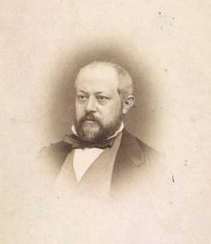 Heinrich Hansen (1821-1890), Danish painter